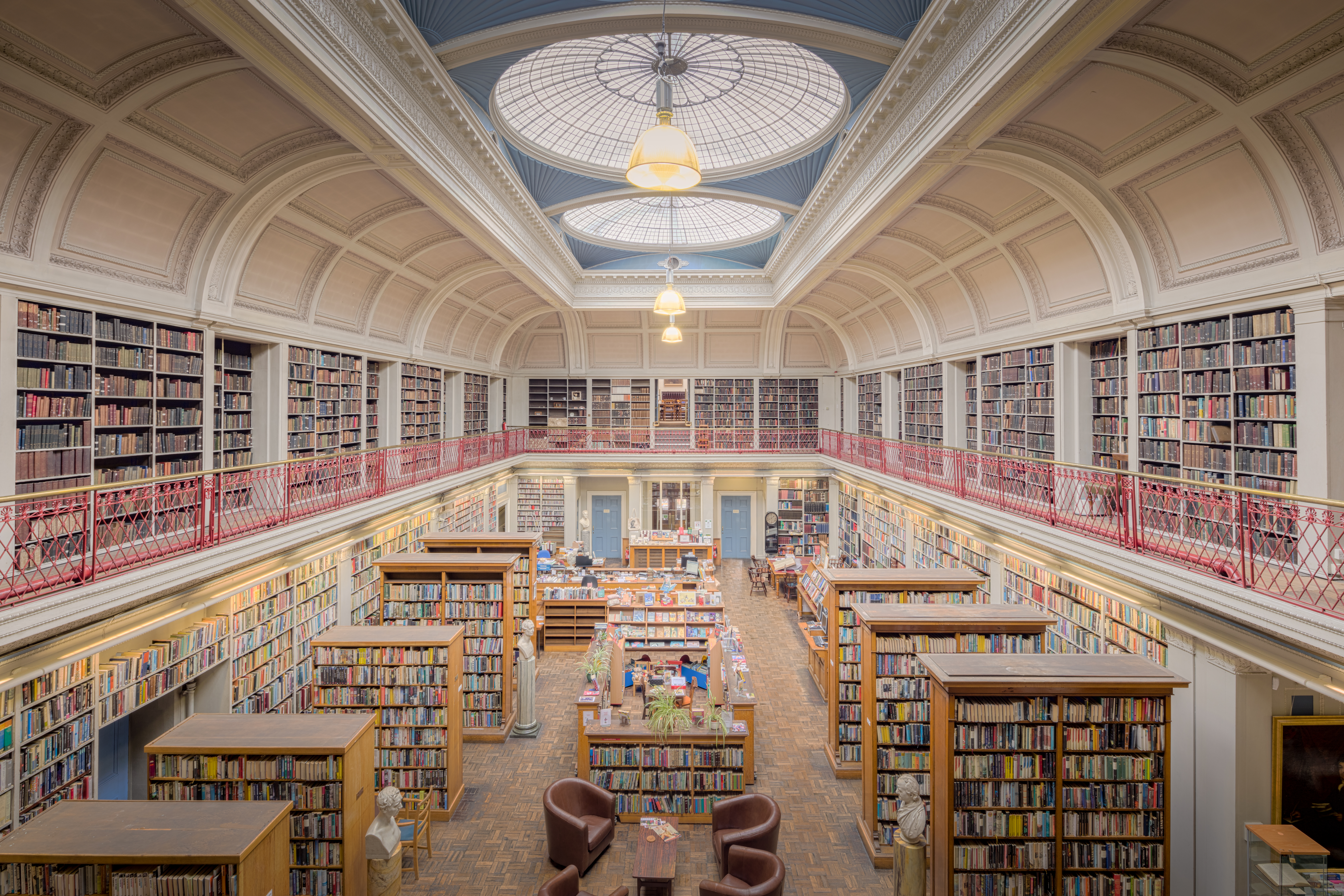 Here is an hdr photograph taken from the Literary And Philosphical Society of Newcastle. Located in Newcastle, England, UK.